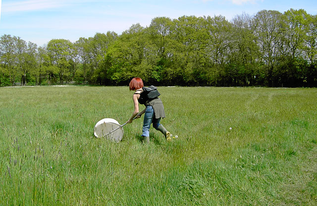 Little Haven Nature Reserve: sweep-netting The student here is sweep-netting for insects in the sward. The meadow is the one just north of Starvelarks Wood. The hedge in the background shows a good line of well-established trees. At the far left, this hedge forms the northern boundary of the Reserve, abutting the A127 (Southend Arterial Road). The Little Haven land is owned by the Little Havens Children's Hospice Trust , and is leased and managed by the Essex Wildlife Trust